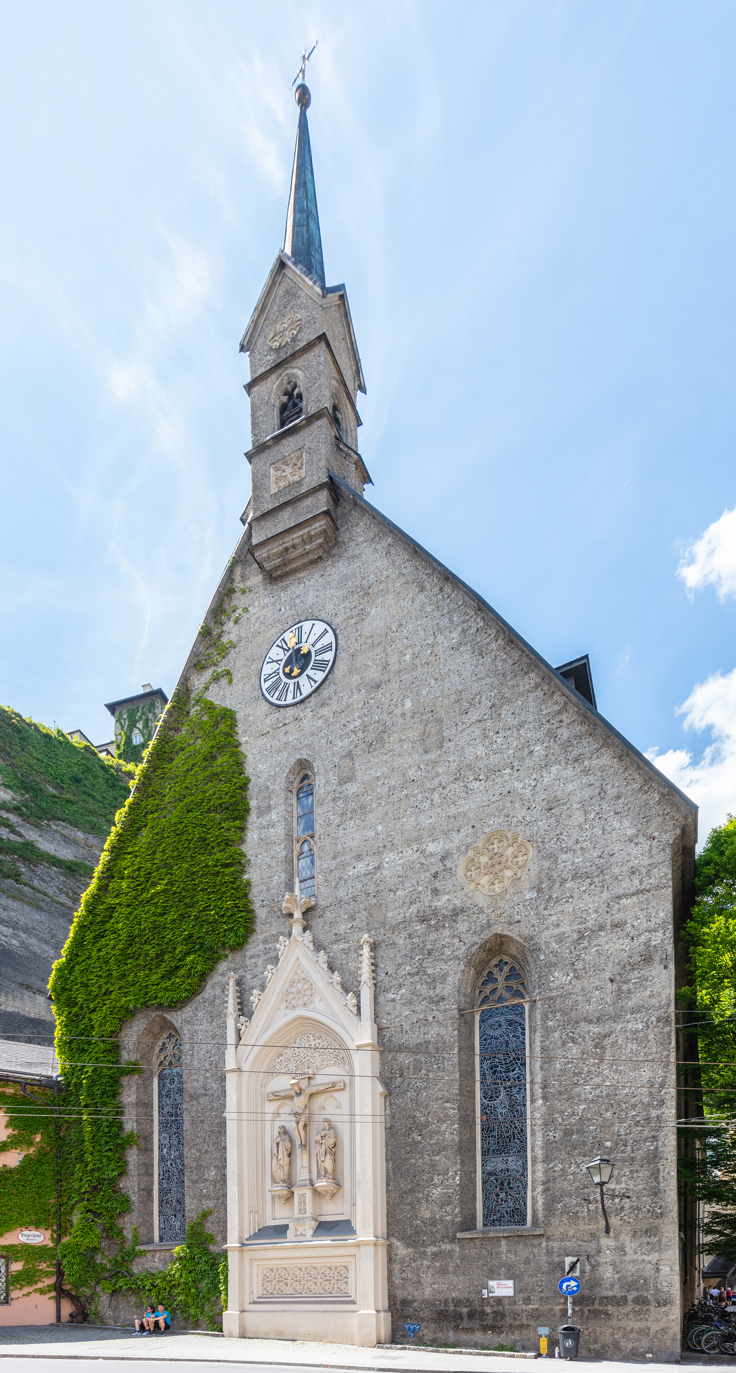 St. Blaise church, Salzburg, Austria